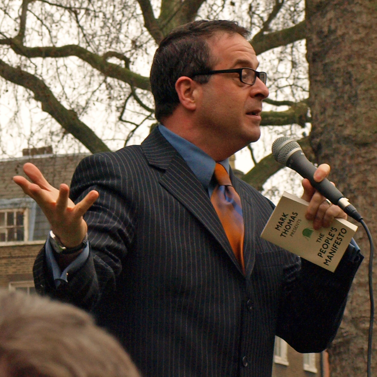 Comedian Mark Thomas at the UKUncut stand-up show in March 2011